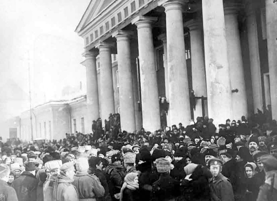 Russian February Revolution in Saint Petersburg. March 1917. At the entrance of the Tauride Palace.